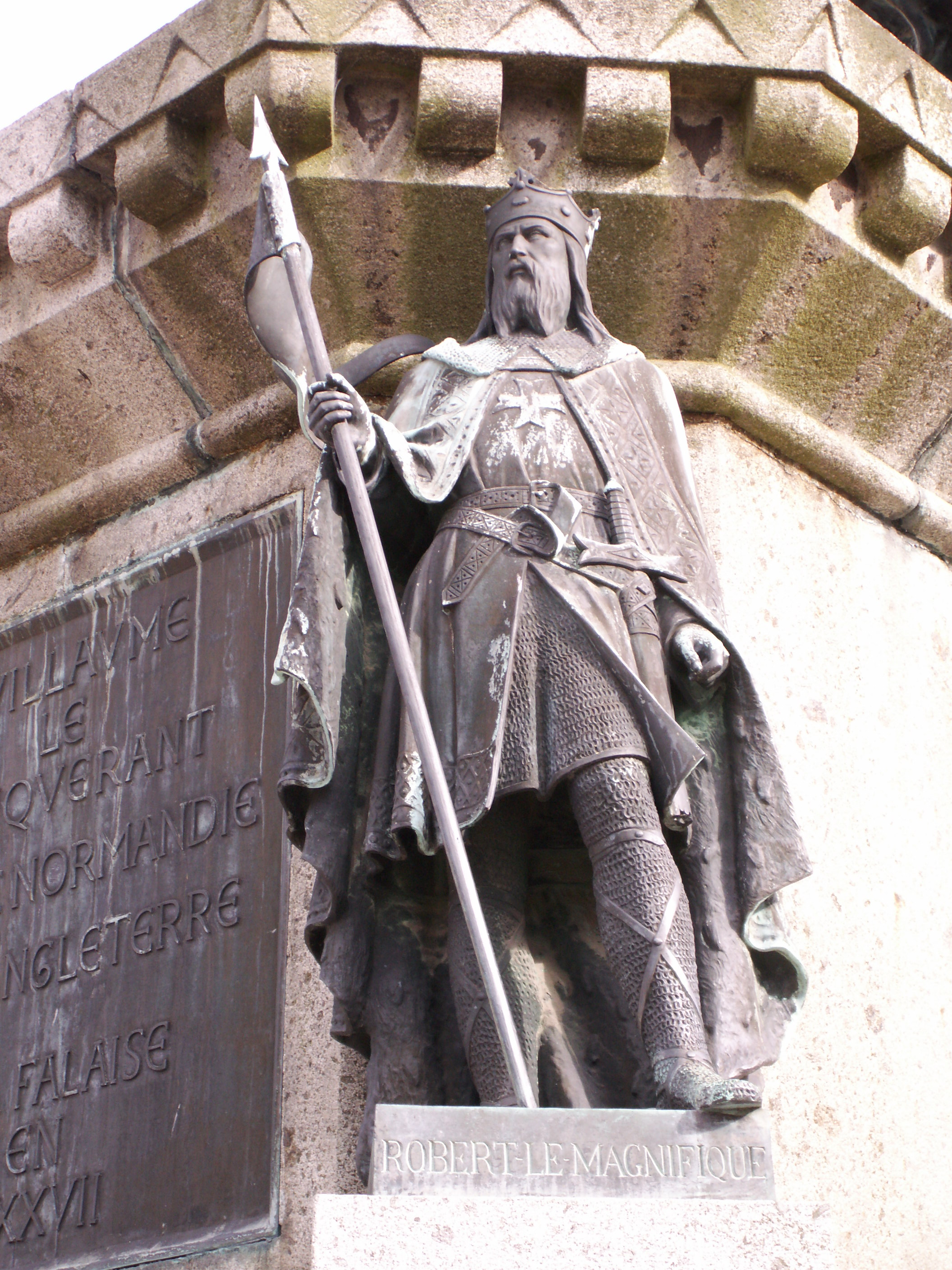 Photo of Robert the Magnificent as part of the Six Dukes of Normandy statue in the Falaise town square.